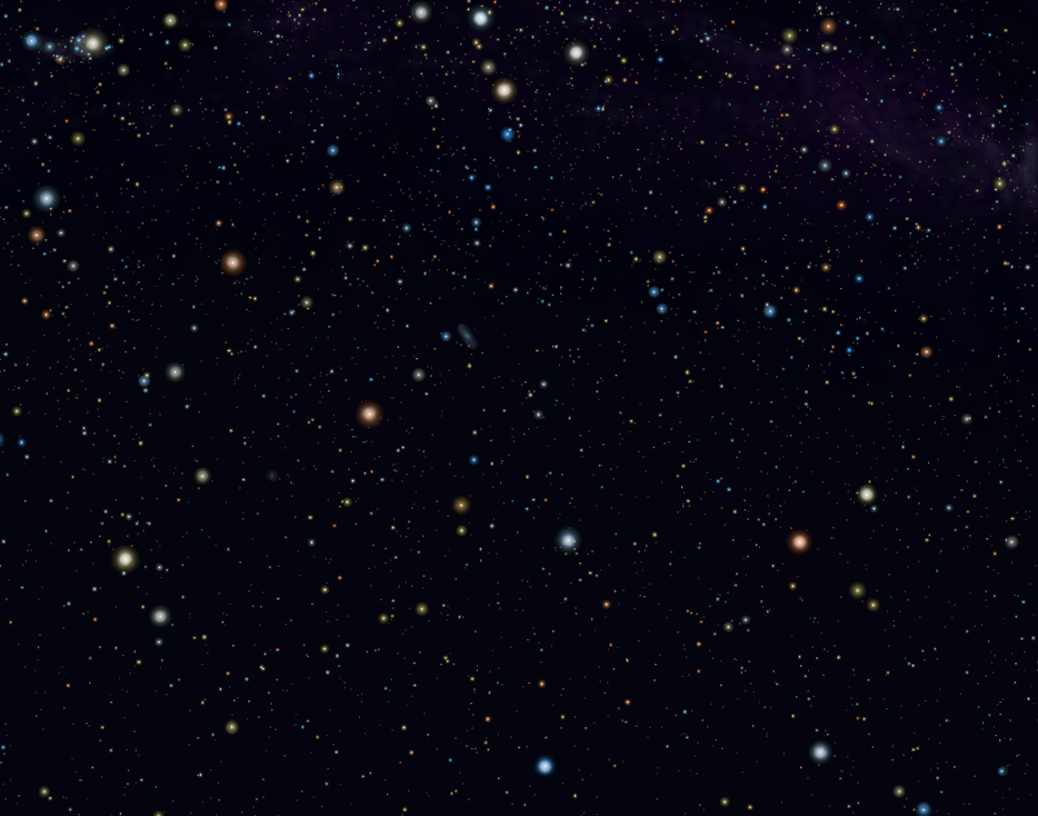 Image of Andromeda